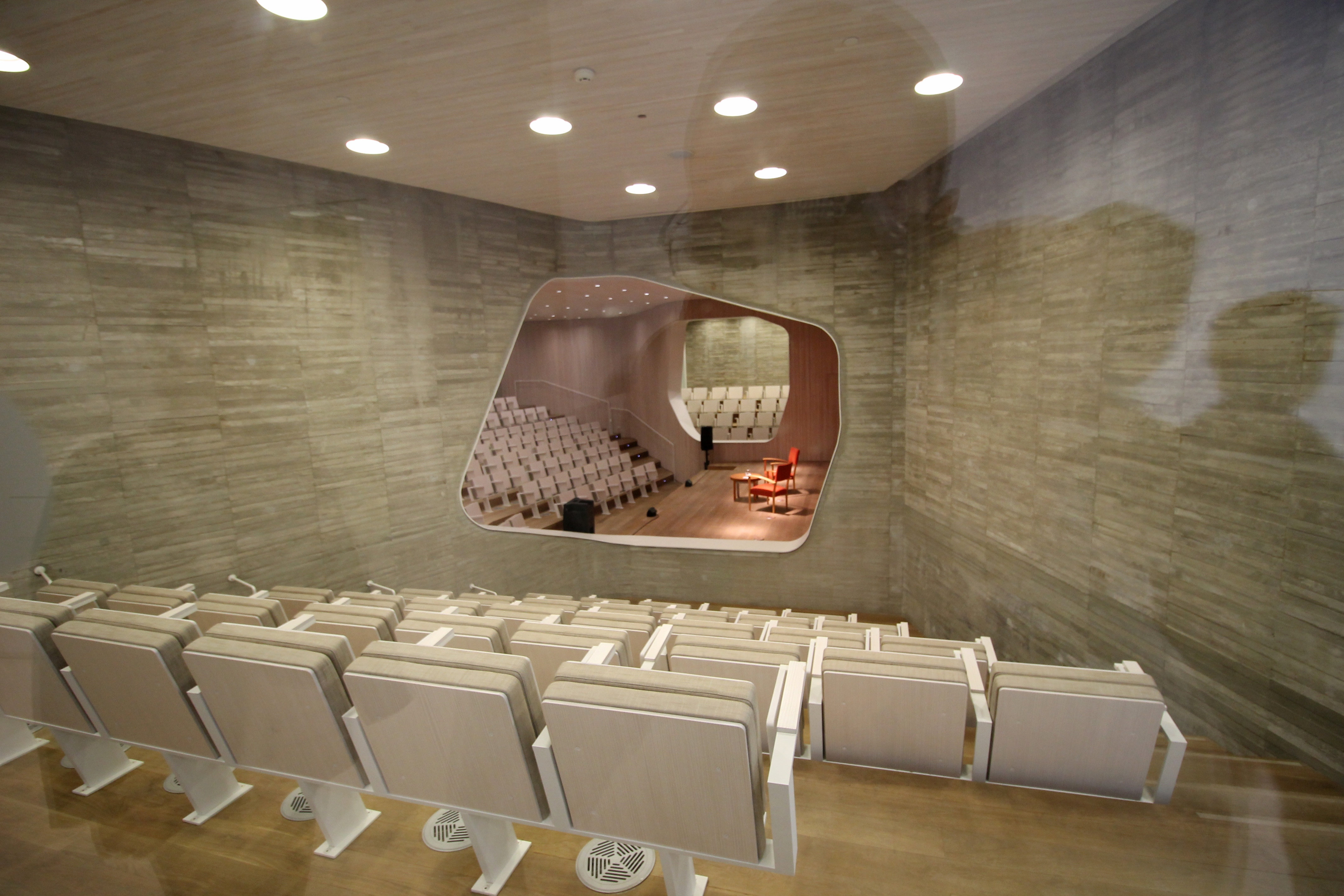 The lecture hall at the home of Francisco Giner de los Ríos Foundation in Madrid (Spain).